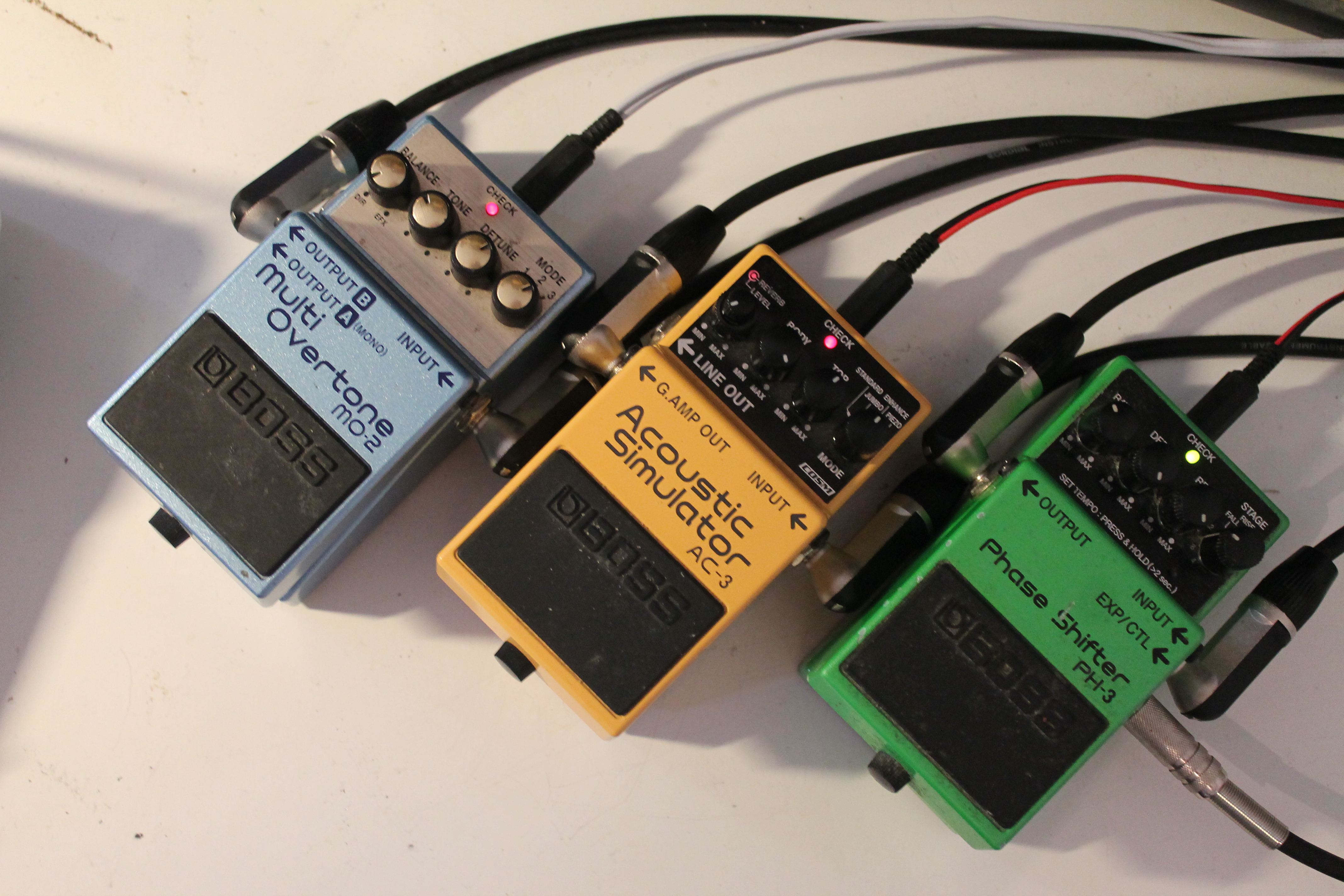 Boss FX -pedals on desk. Pedals are on desk and always on, and controlled by loops on the floor. These pedals are on desk cause it's easy to adjust them while playing.